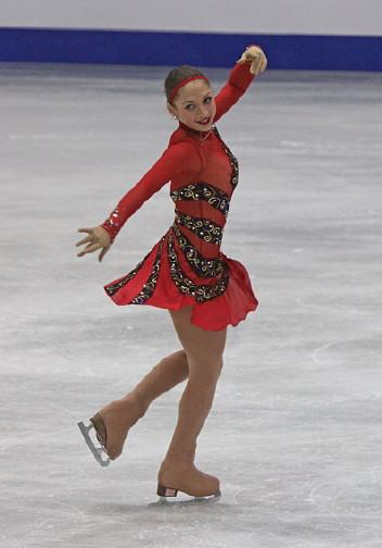 Elene GEDEVANISHVILI free program at the 2009 World Junior Figure Skating Championships